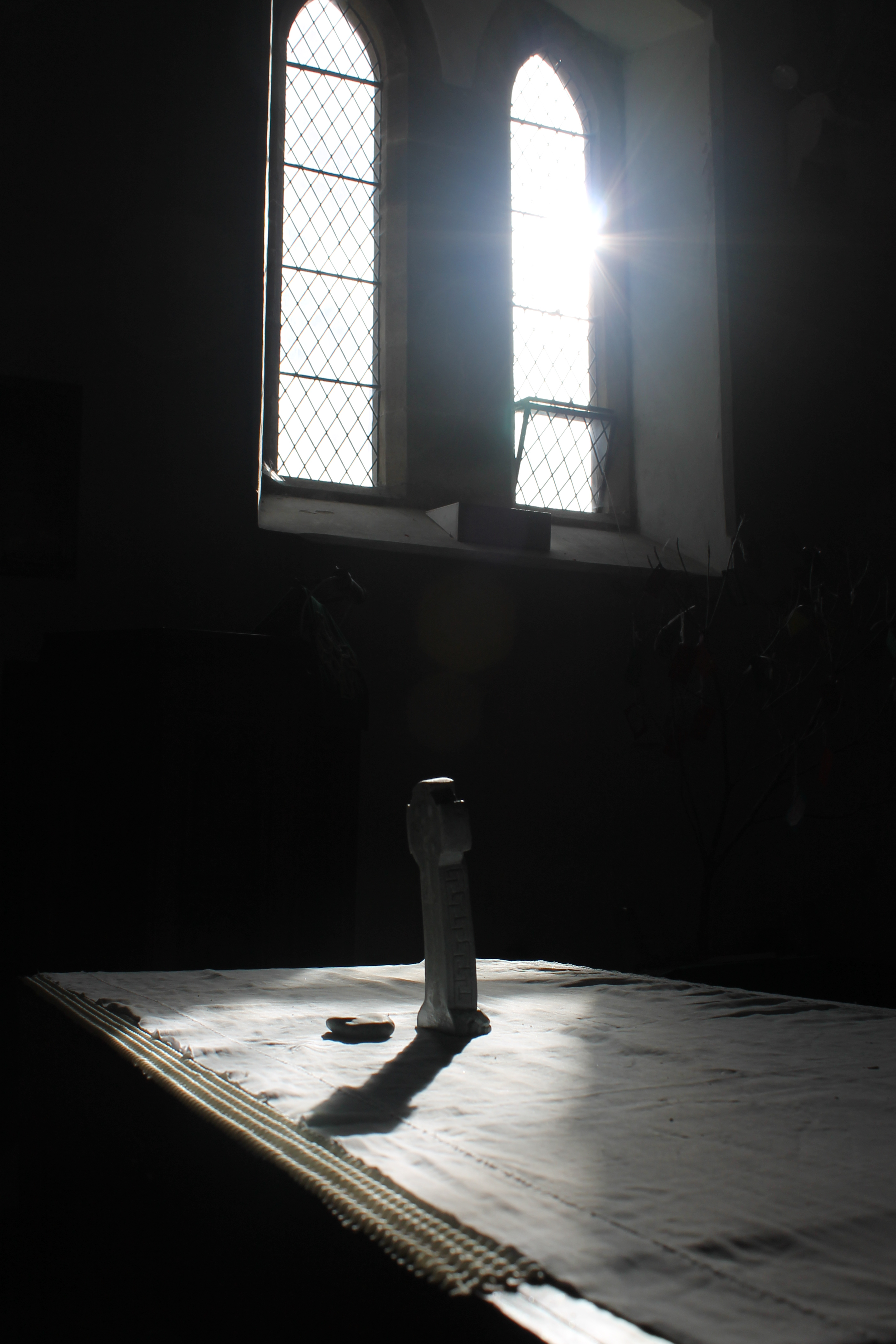 St Mary's Church, Beddgelert, Gwynedd, Wales.